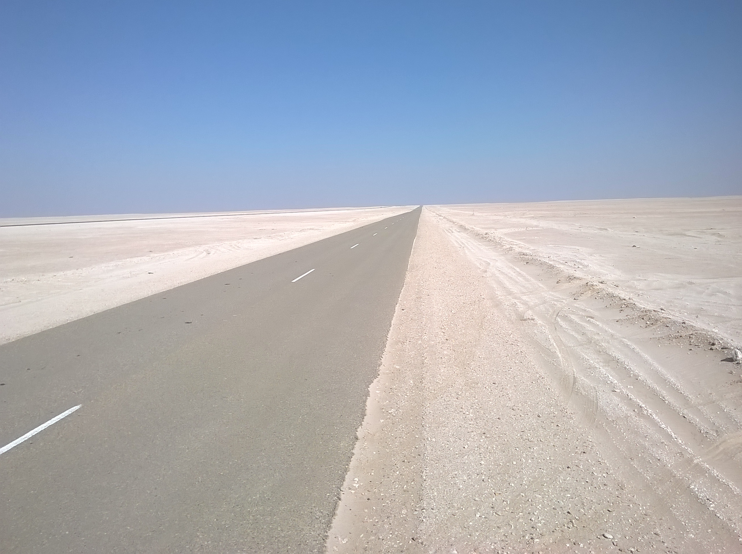 Road near Haima, Oman